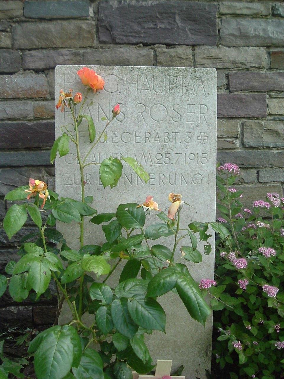 Hans Roser's gravestone in the Sanctuary Wood Cemetery.